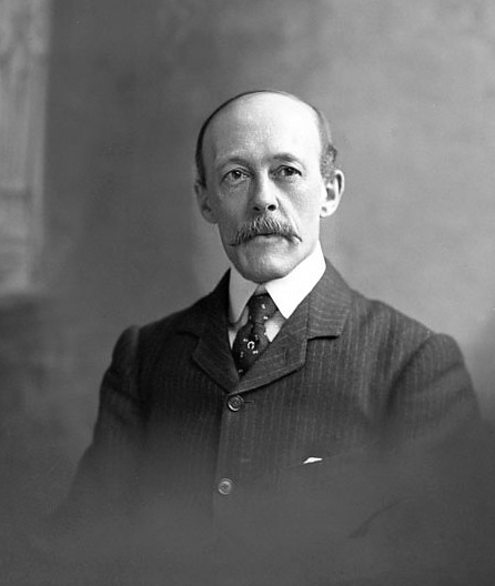 James George Aylwin Creighton (June 12, 1850 – June 27, 1930), a Canadian lawyer, engineer, journalist and athlete. He is credited with organizing the first recorded indoor ice hockey match at Montreal, Quebec, Canada in 1875. He helped popularize the sport in Montreal and later in Ottawa, Ontario, Canada after he moved to Ottawa in 1882 where he served for 48 years as the law clerk to the Canadian Senate.